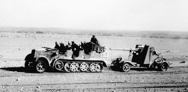 Middle sized 5 ton tractor (Sd.Kfz 6/1) with 88-mm gun in tow.